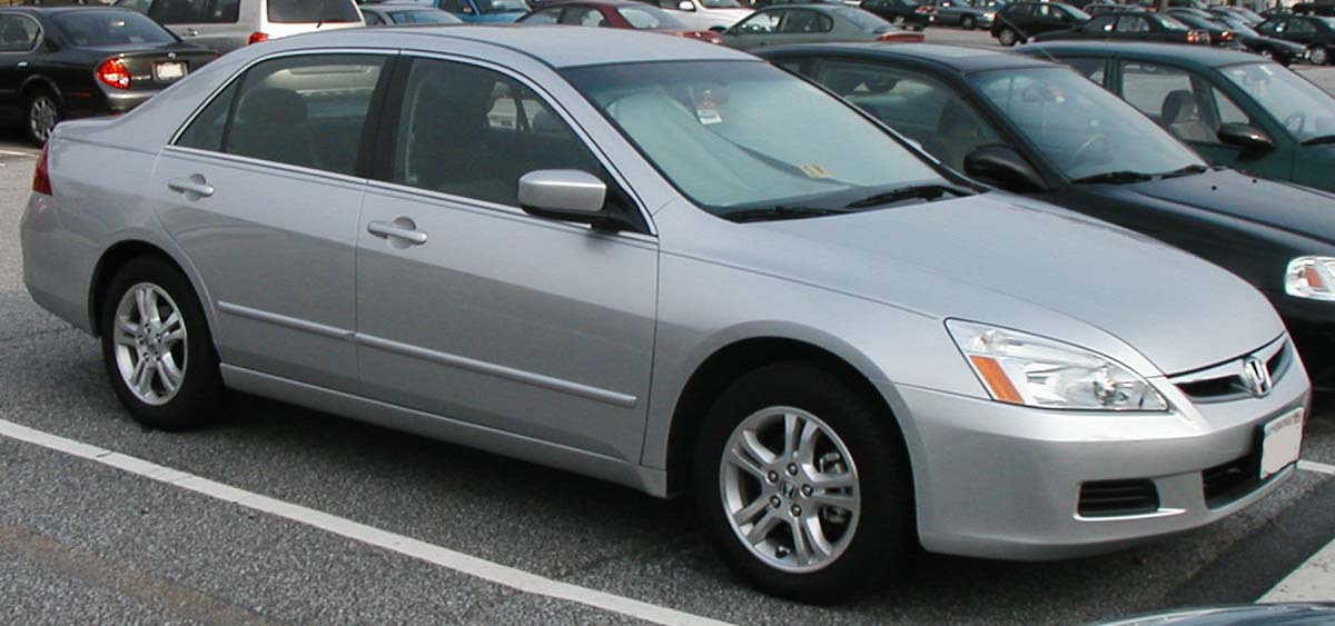 2006 Honda Accord photographed in USA.